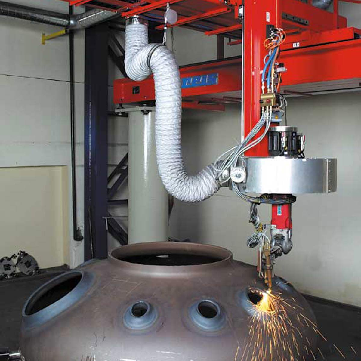 Cutting Robots